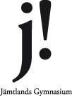 Upper Secondary School of Jämtland